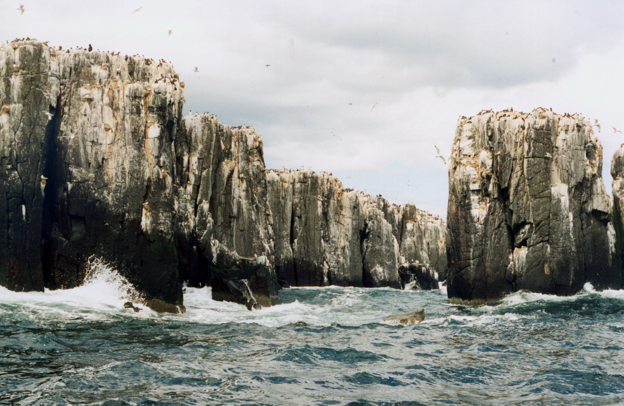 View at the Pinnacles on Staple Island, Outer Group of Farne Islands